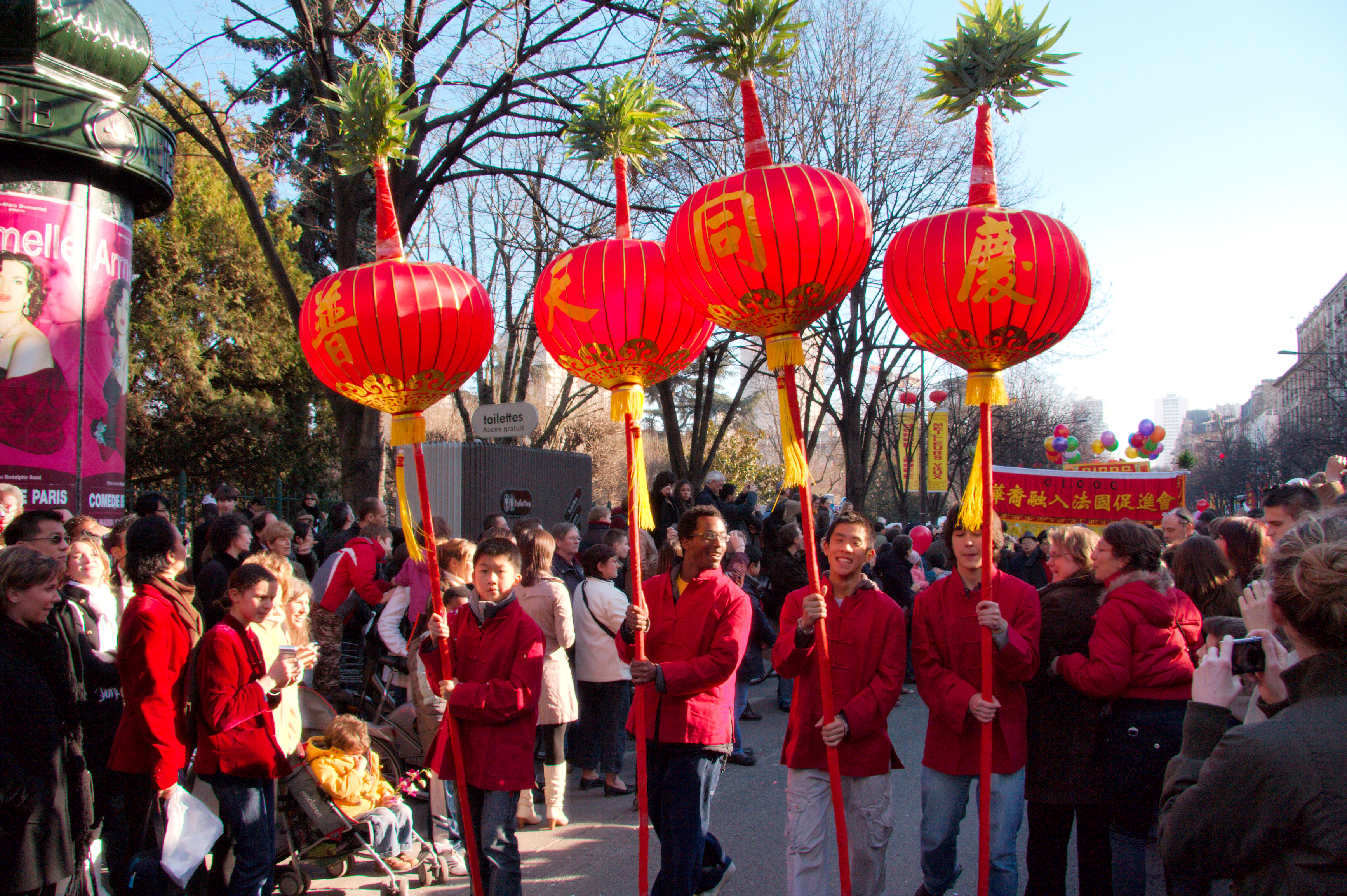 Chinese New Year, which took place in the 13th arrondissement of Paris (France).